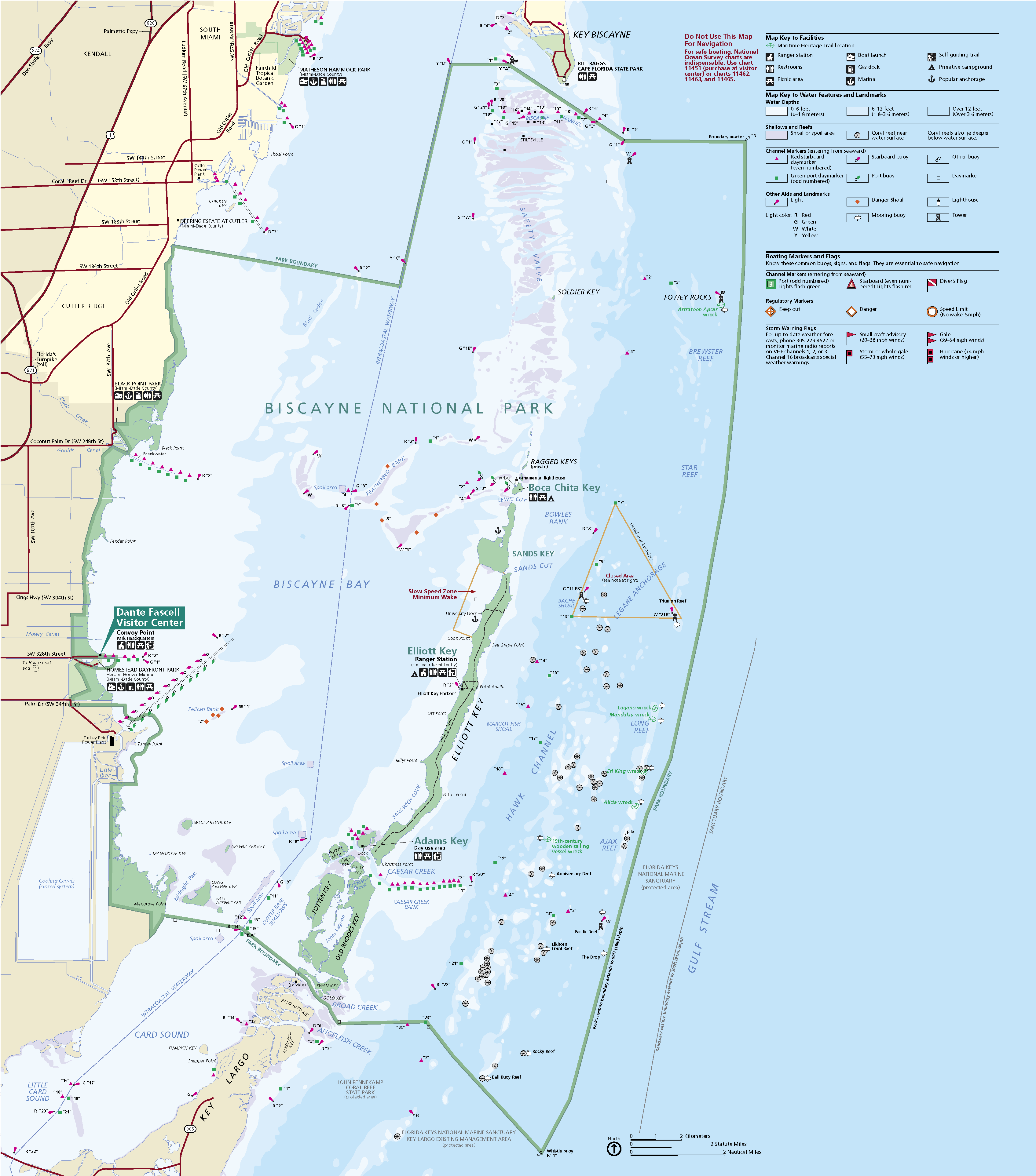 Official National Park Service map of Biscayne National Park, Official National Park Service map of Biscayne National Park, Florida. Converted from PDF using Adobe Acrobat X Professional. Original file name: BISCmap1.pdf